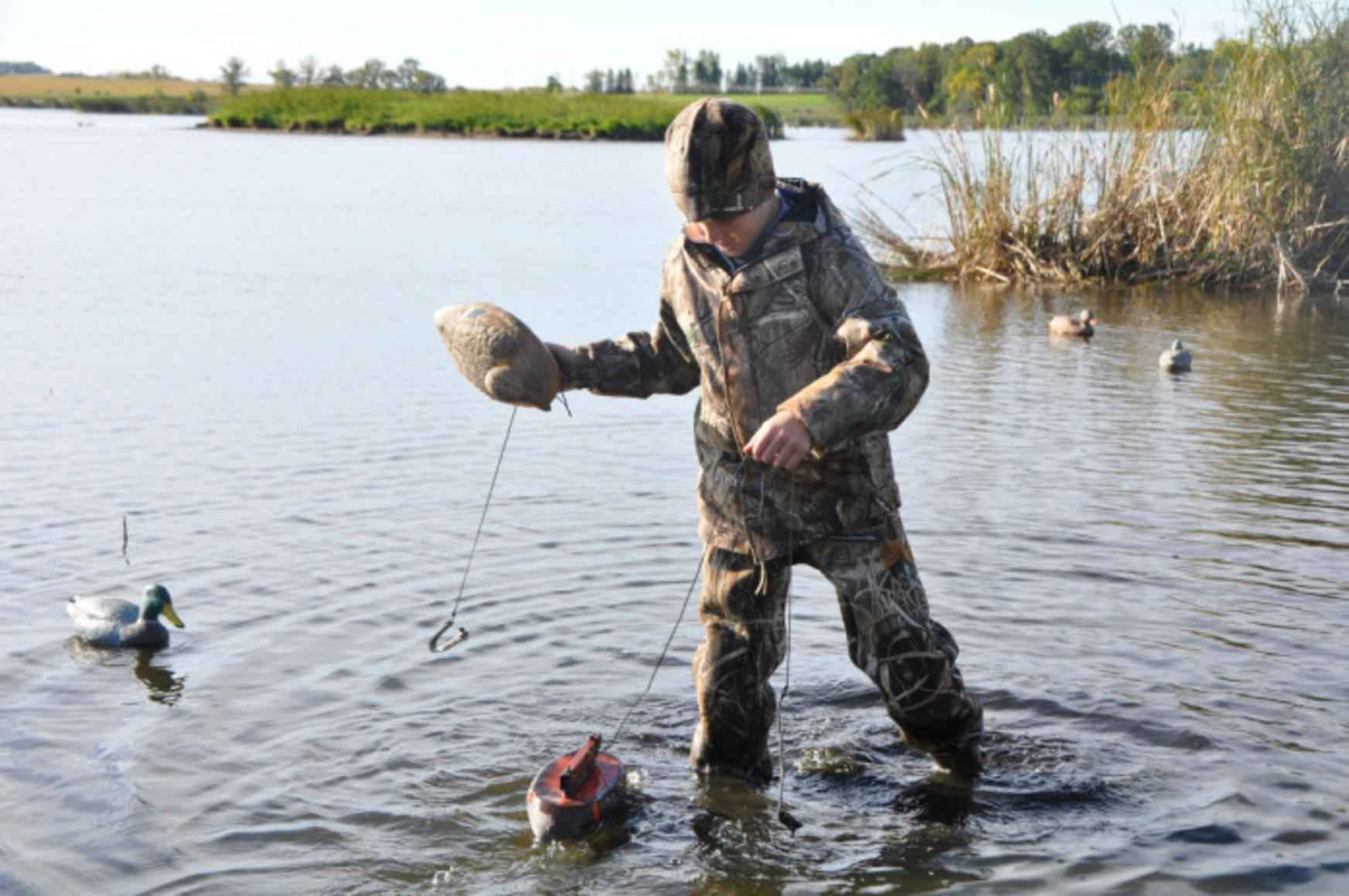 Image title: Young boy hunter with duck hunting gear Image from Public domain images website